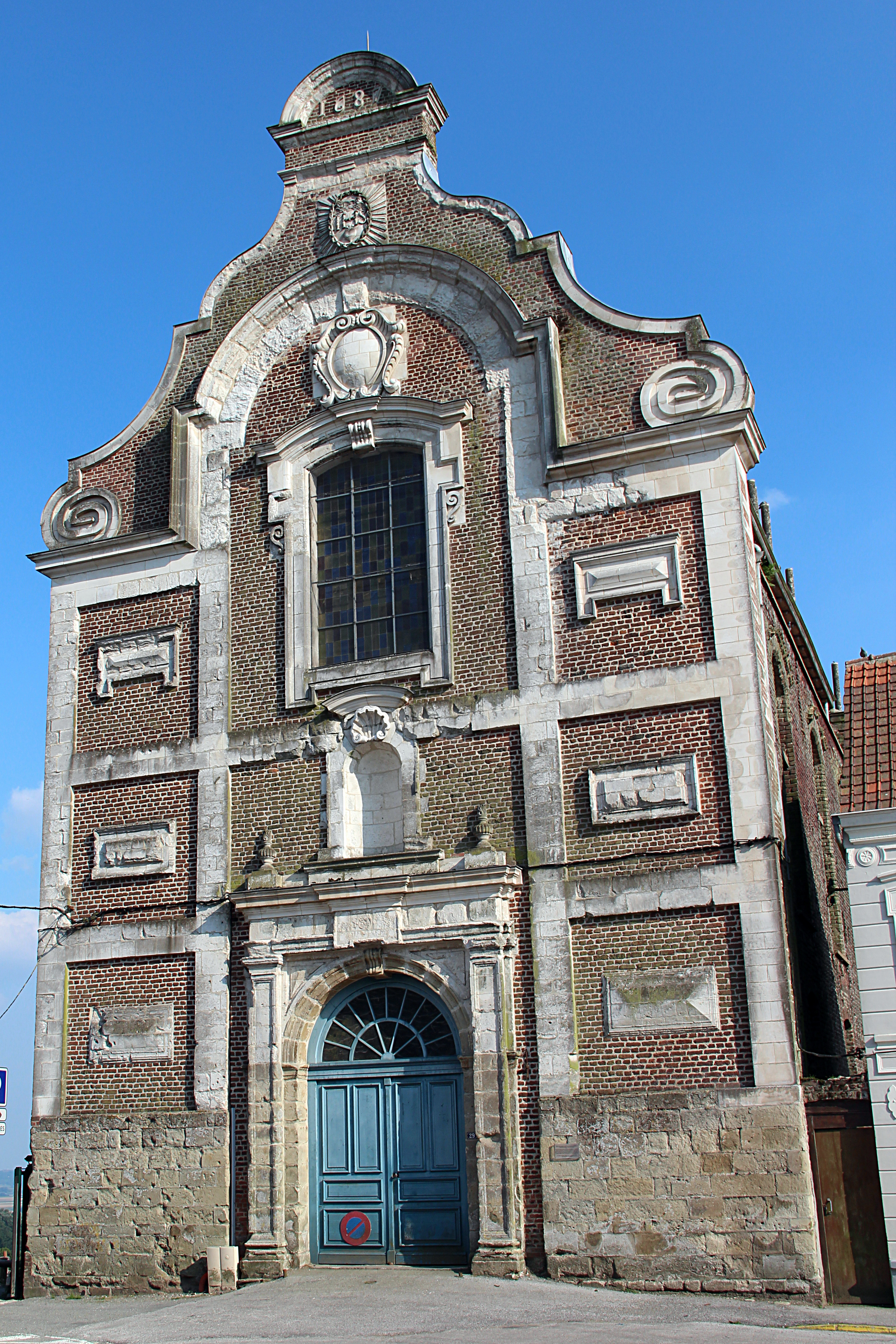 Western facade of the chapel of the Old College of the Jesuits (1687), work carried out according to the plan of the brother architect Cornely Verbessum rue Notre-Dame in Cassel (department of Nord, France).